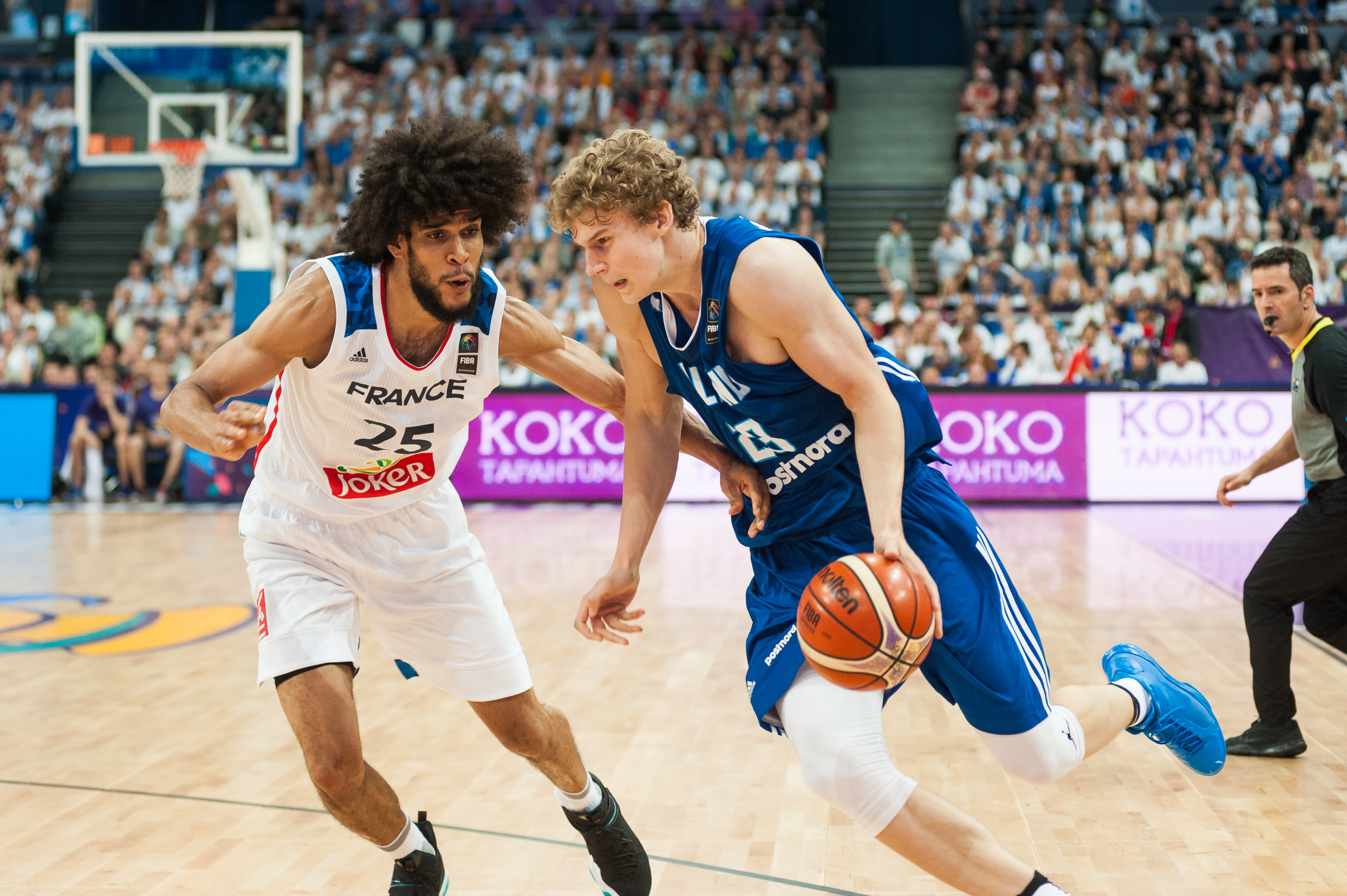 EuroBasket 2017 Group A game between France and Finland at Hartwall Arena in Helsinki, Finland.